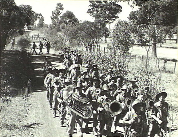 Soldiers from the Australian 2/7th Infantry Battalion march to the rifle range at Puckapunyal, for small arms training, 23 February 1940.